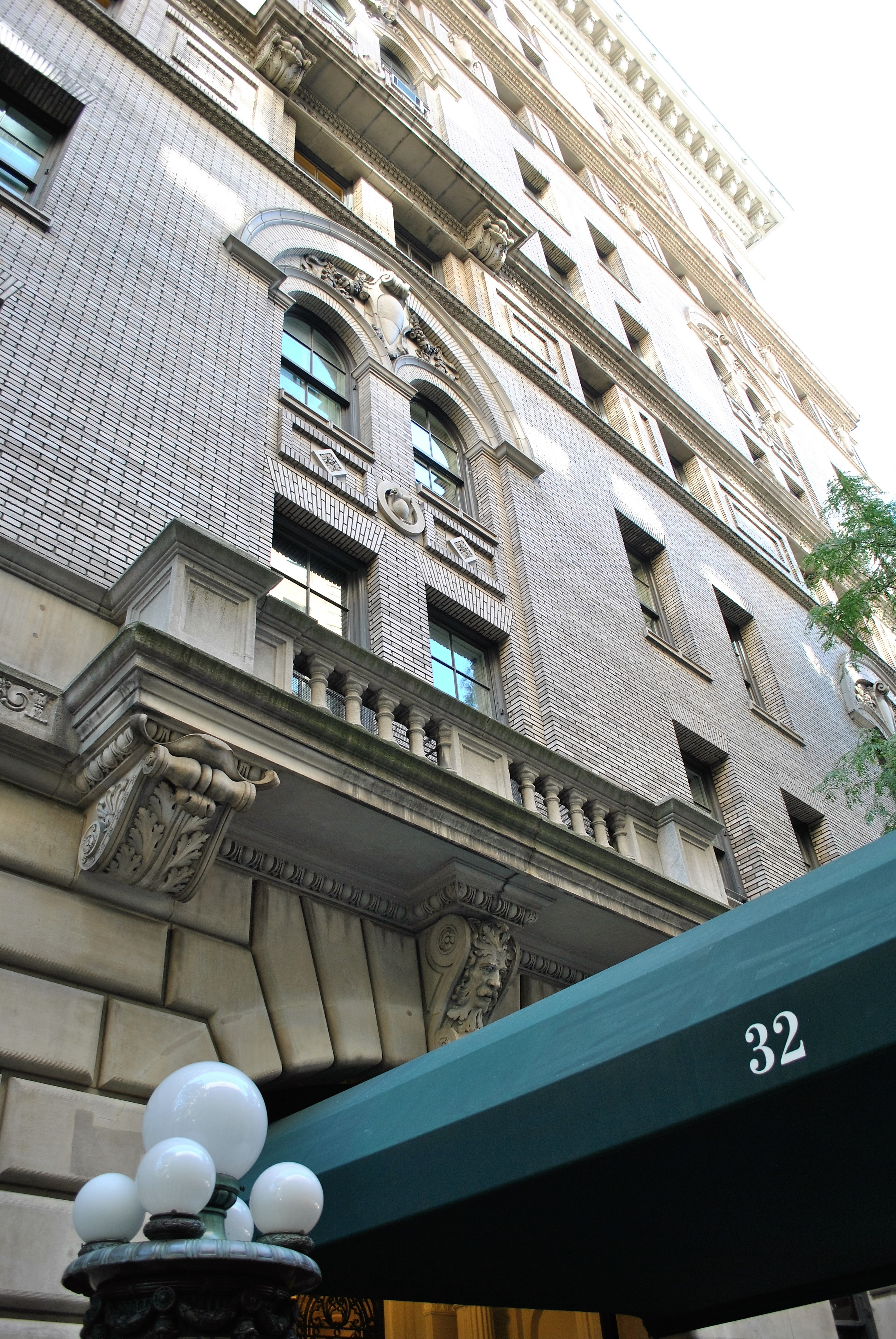 Image originally published in Queer Places: Retracing the Steps of LGBTQ people around the World Authored by Elisa Rolle